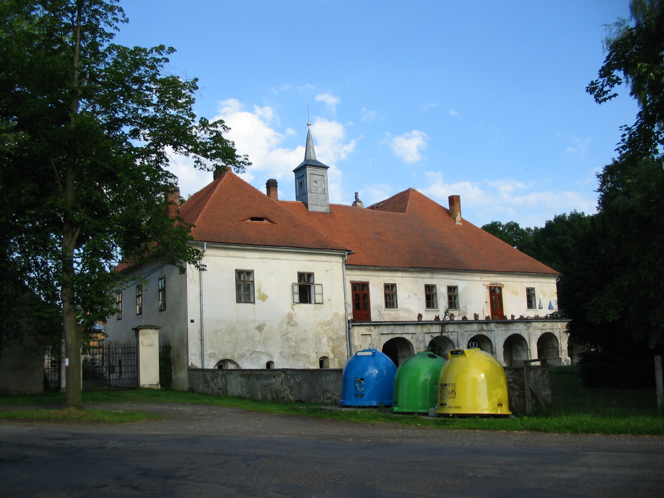 Castle in Mačice, Klatovy District, Czech Republic